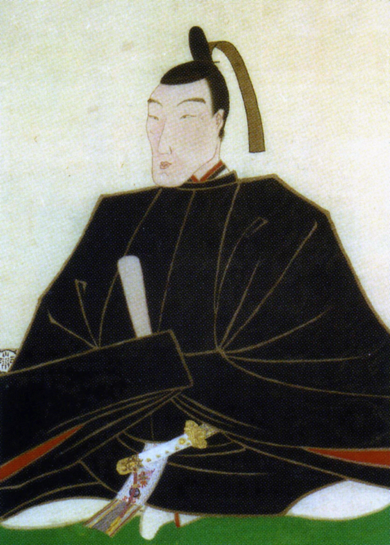 portrait of Ikeda Harumichi(the 6th feudal lord of Tottori clan)